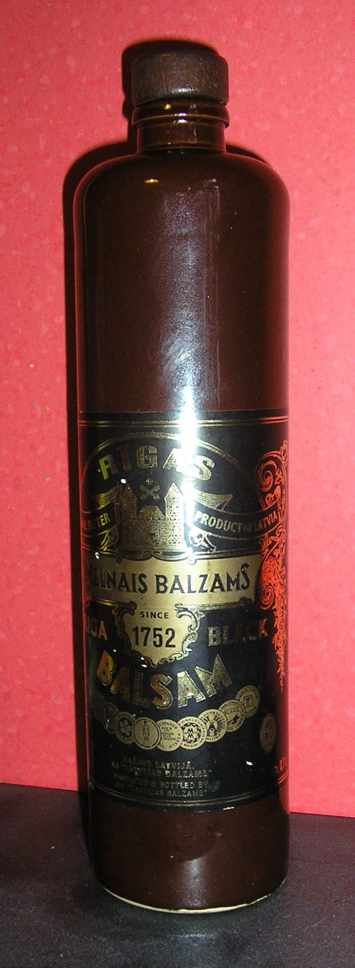 Rigas Balsam in the typical clay bottle.